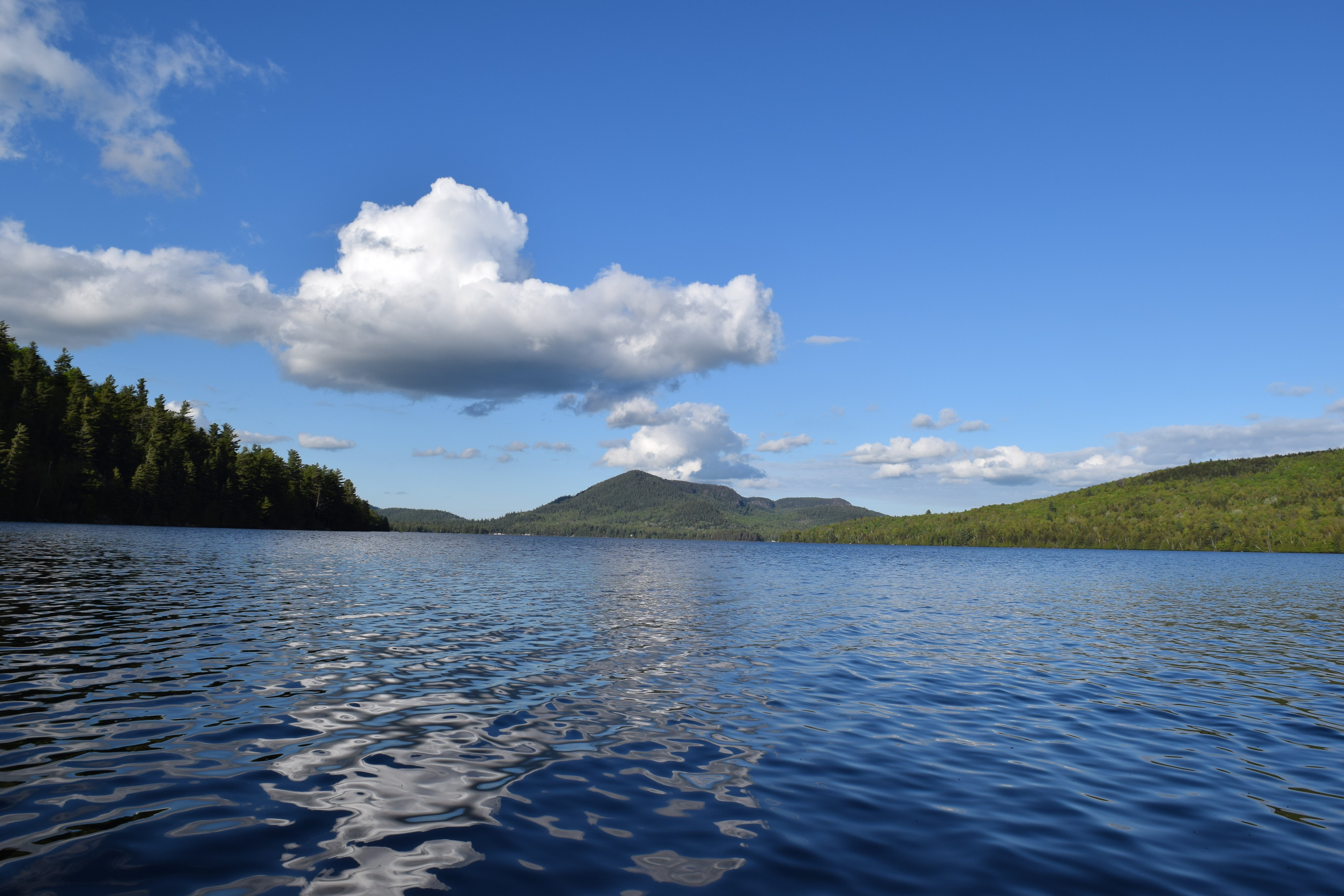 Silver Lake, New York looking Northeast toward Silver Lake Mountain